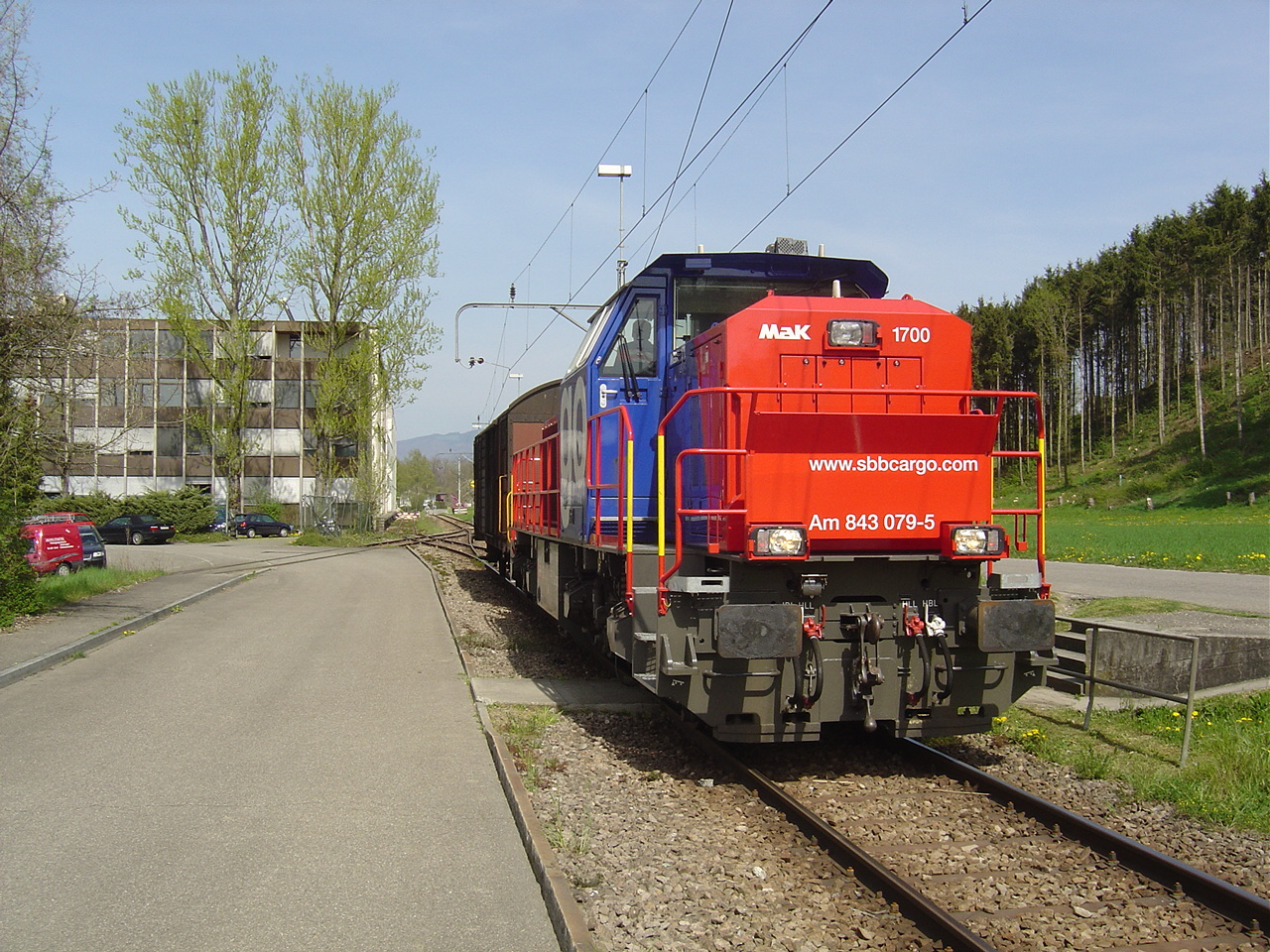 diesel locomotive type "Am 843" of SBB Cargo. Location: industry area of Möhlin